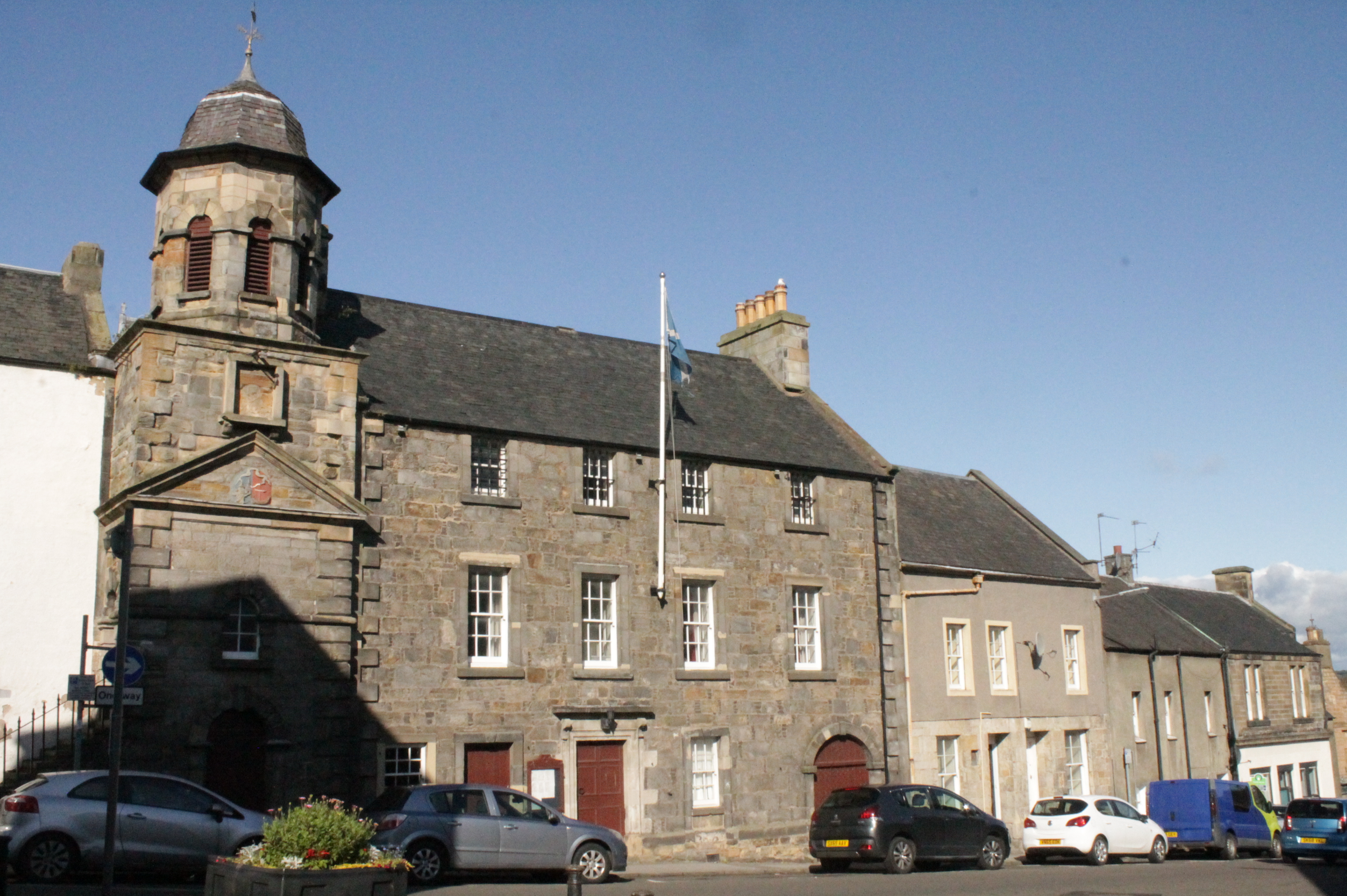 Inverkeithing Town House